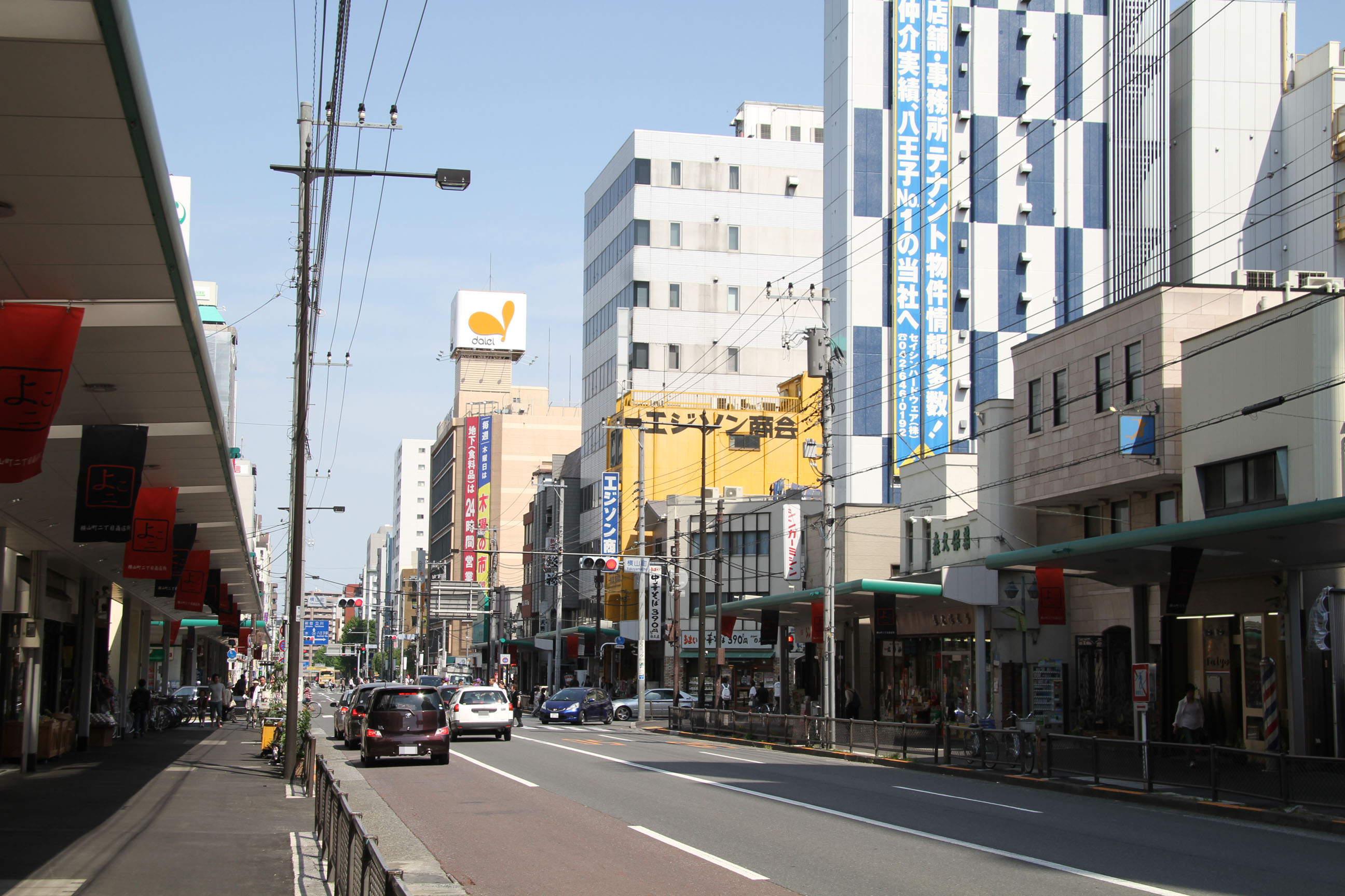 Route 20, Yokoyamacho, Hachioji, Tokyo, Japan